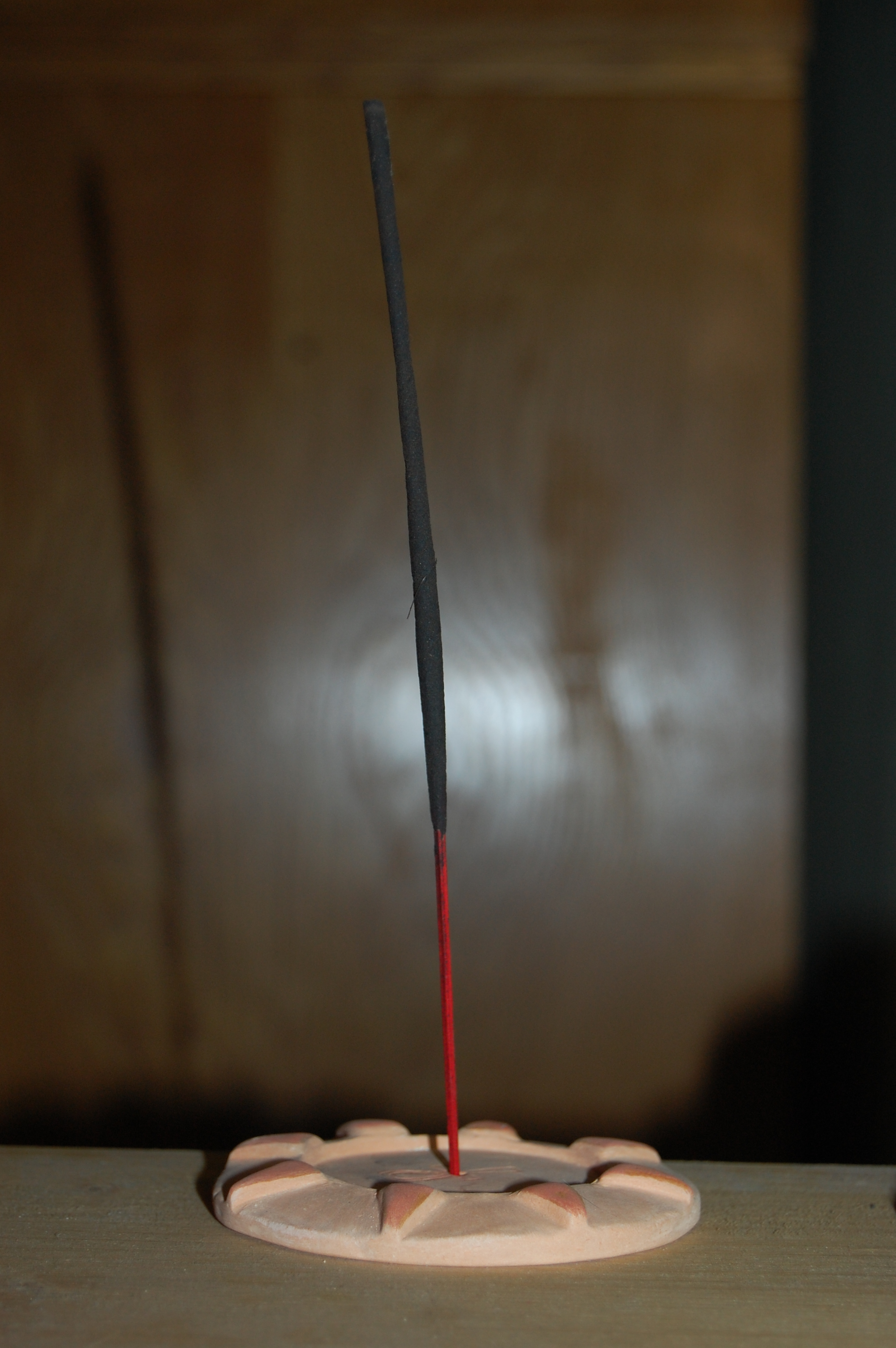 Joss stick. Česky: Vonná tyčinka.